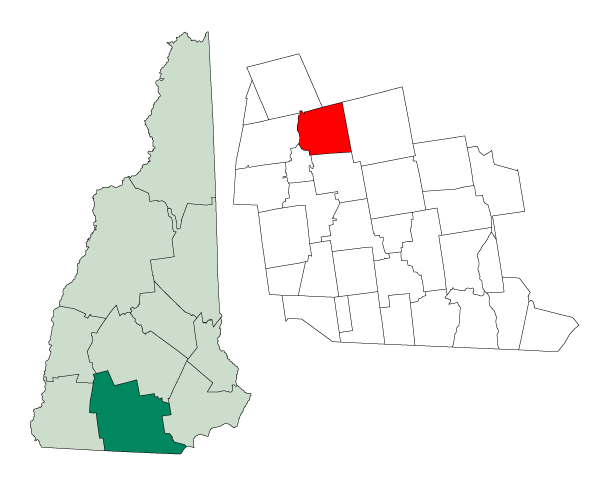 Map of a municipality in Hillsborough County, New Hampshire